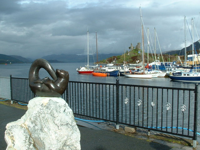 Caol Acain Harbour and Caisteal Maol. The name of the village, Kyle Akin is from the Scots Gaelic Caol Acain, meaning the “Strait of Haakon” named after the Norwegian King Haakon.